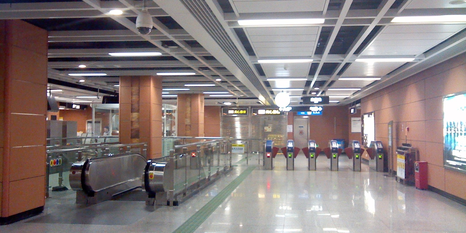 千灯湖站站厅